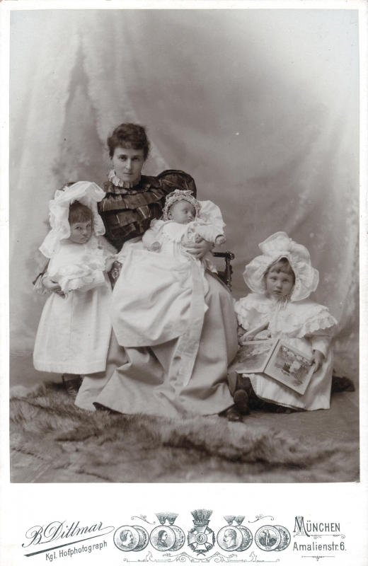 Marie José, Duchess in Bavaria with her three daughters (Sophie Adelheid, Elisabeth, Marie Gabrielle)